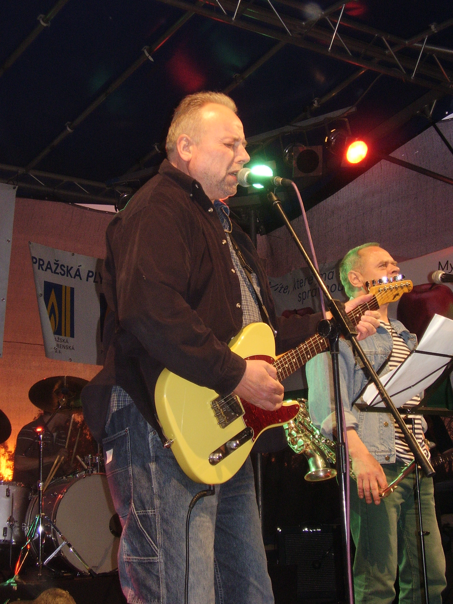 Guitarist of Czech music group Hudba Praha, Ladronka, Prague